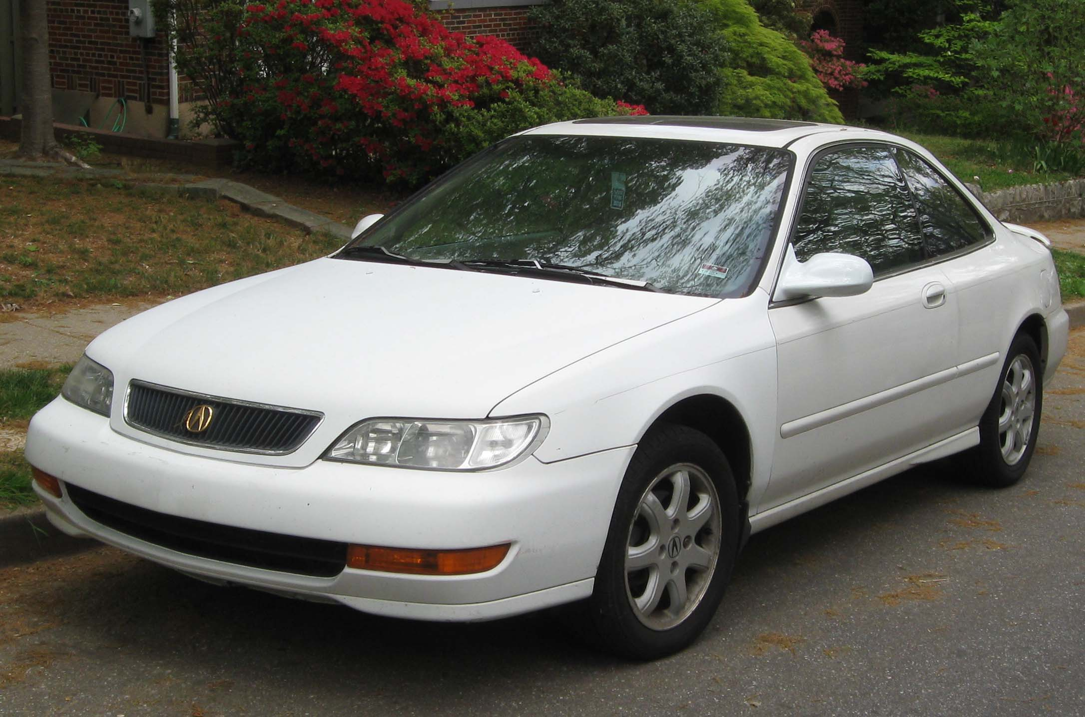 1998-1999 Acura CL photographed in Washington, D.C., USA.